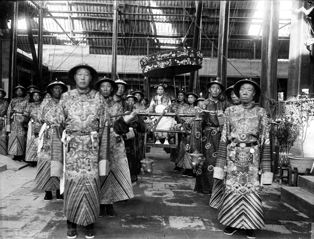 The Qing Dynasty Cixi Imperial Dowager Empress of China On Throne Sedan With Palace Enuches.